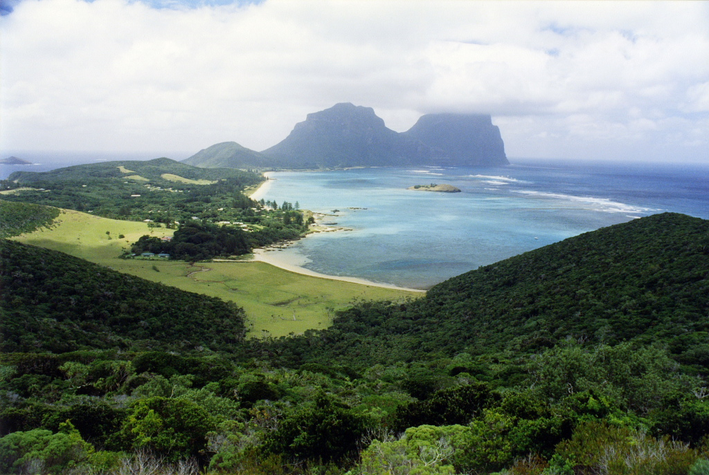 Lord Howe Island, showing Mts Lidgbird and Gower, taken from Kim's Lookout.